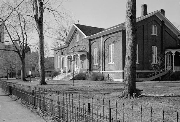 TITLE: Hicksite Friends Meetinghouse, 1150 North A Street, Richmond, Wayne County, IN CALL NUMBER: HABS IND,89-RICH,5-1 REPRODUCTION NUMBER: [See Call Number] MEDIUM: Photo(s): 1 (5 x 7 in.) Data Page(s): 4 plus cover page Color Transparencies: 1 DATE: Documentation compiled after 1933. CREATOR: Historic American Buildings Survey, creator RELATED NAME(S): Mathews, William N. Whitewater Friends Hicks, Elias NOTE: Survey number HABS IN-119 Building/structure dates: 1865 initial construction Building/structure dates: 1929 subsequent work SUBJECTS: INDIANA--Wayne County--Richmond OTHER TITLE: Wayne County Museum COLLECTION: Historic American Buildings Survey (Library of Congress) REPOSITORY: Library of Congress, Prints and Photograph Division, Washington, D.C. 20540 USA DIGID: [1] CONTENTS: Photograph caption(s): 1. Historic American Buildings Survey Jack E. Boucher, Photographer January 1975 FRONT ELEVATION CARD #: IN0091